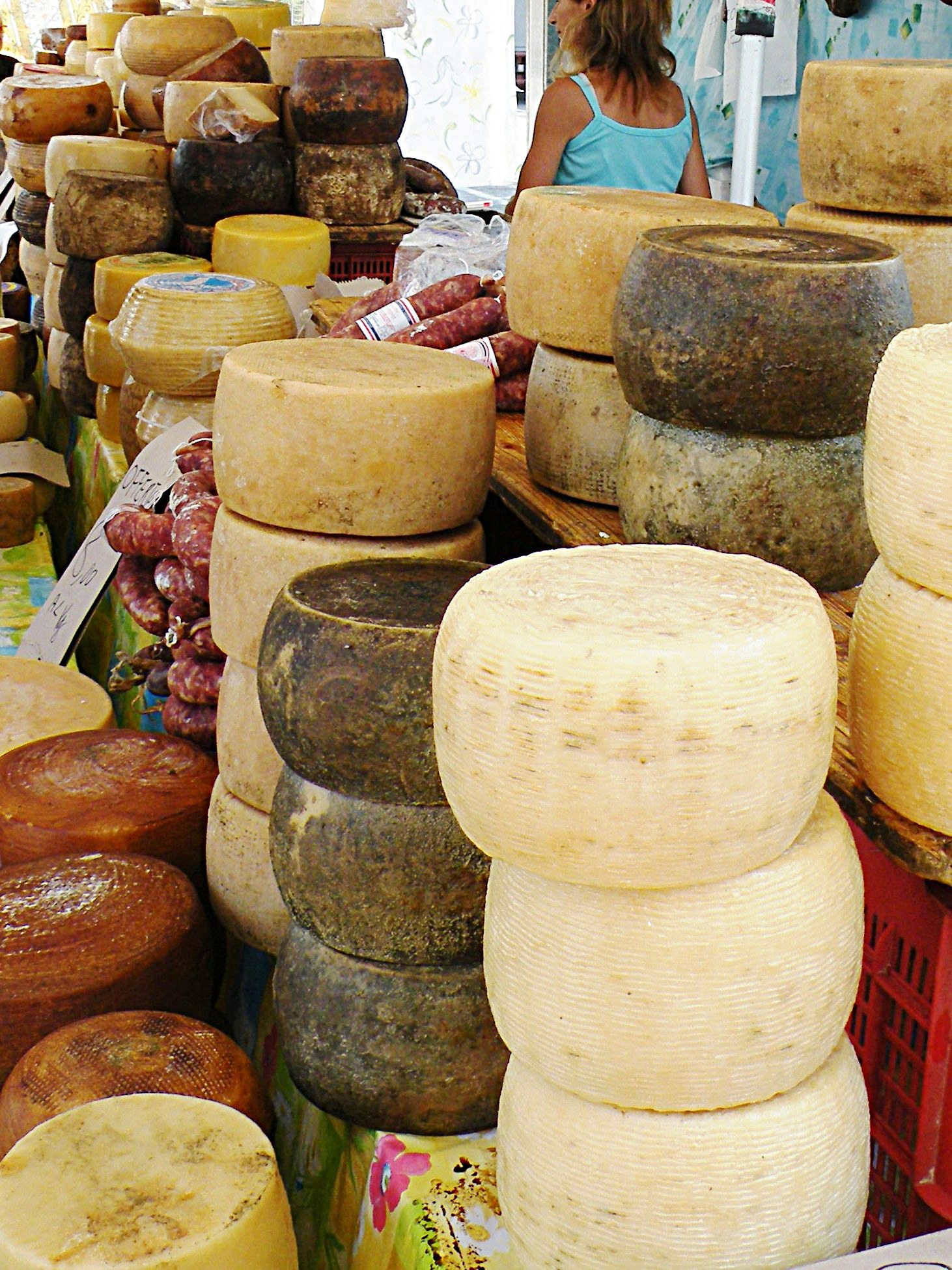 Cheeses and sausages from Sardinia Island (Alghero Public Market)